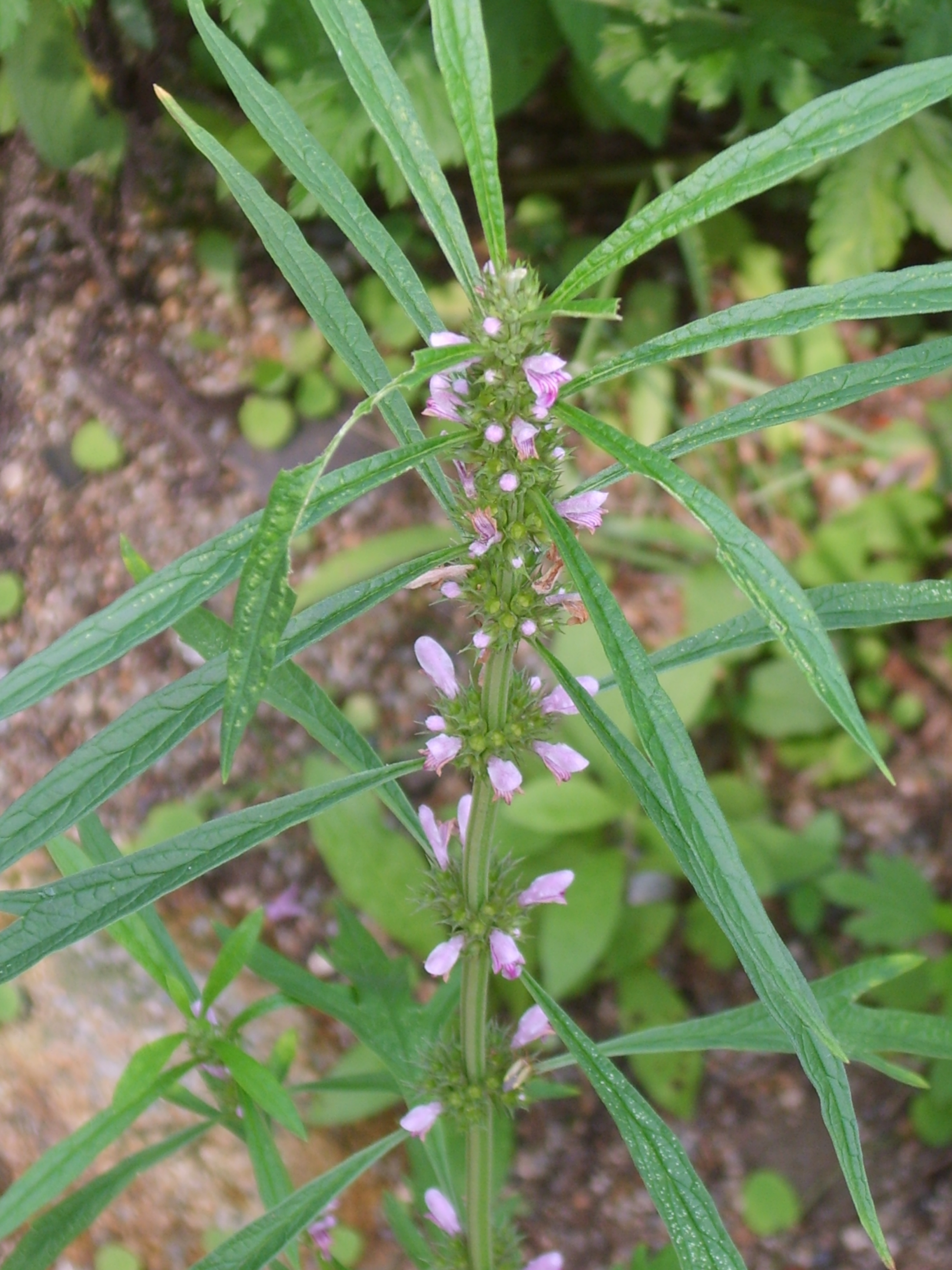 Leonurus japonicus in Gyeongbokgung palace, Korea